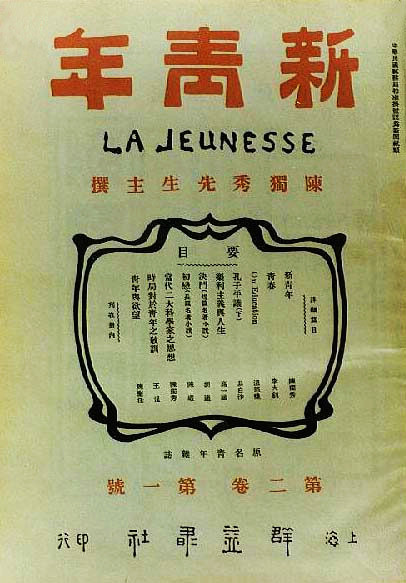 The covery of La Jeunesse